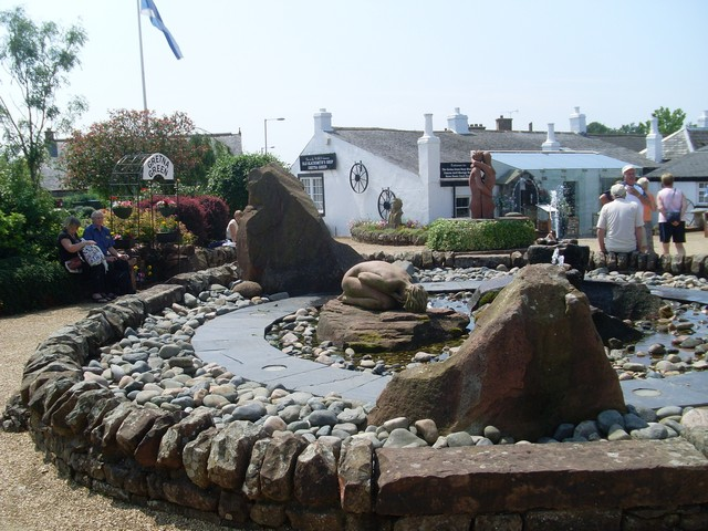 Fountains at Gretna Green A closer view of the fountain.